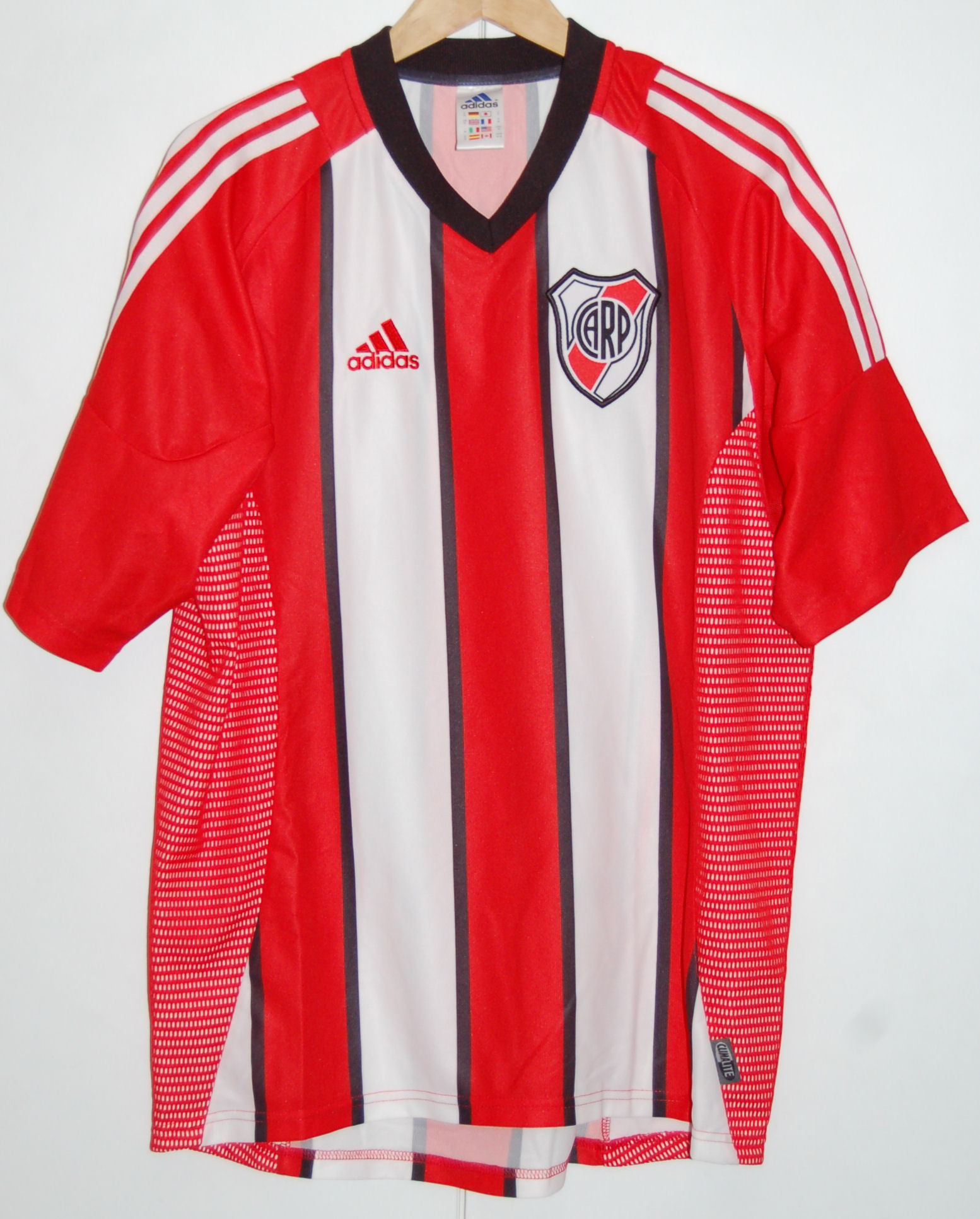 River Plate away jersey 2002